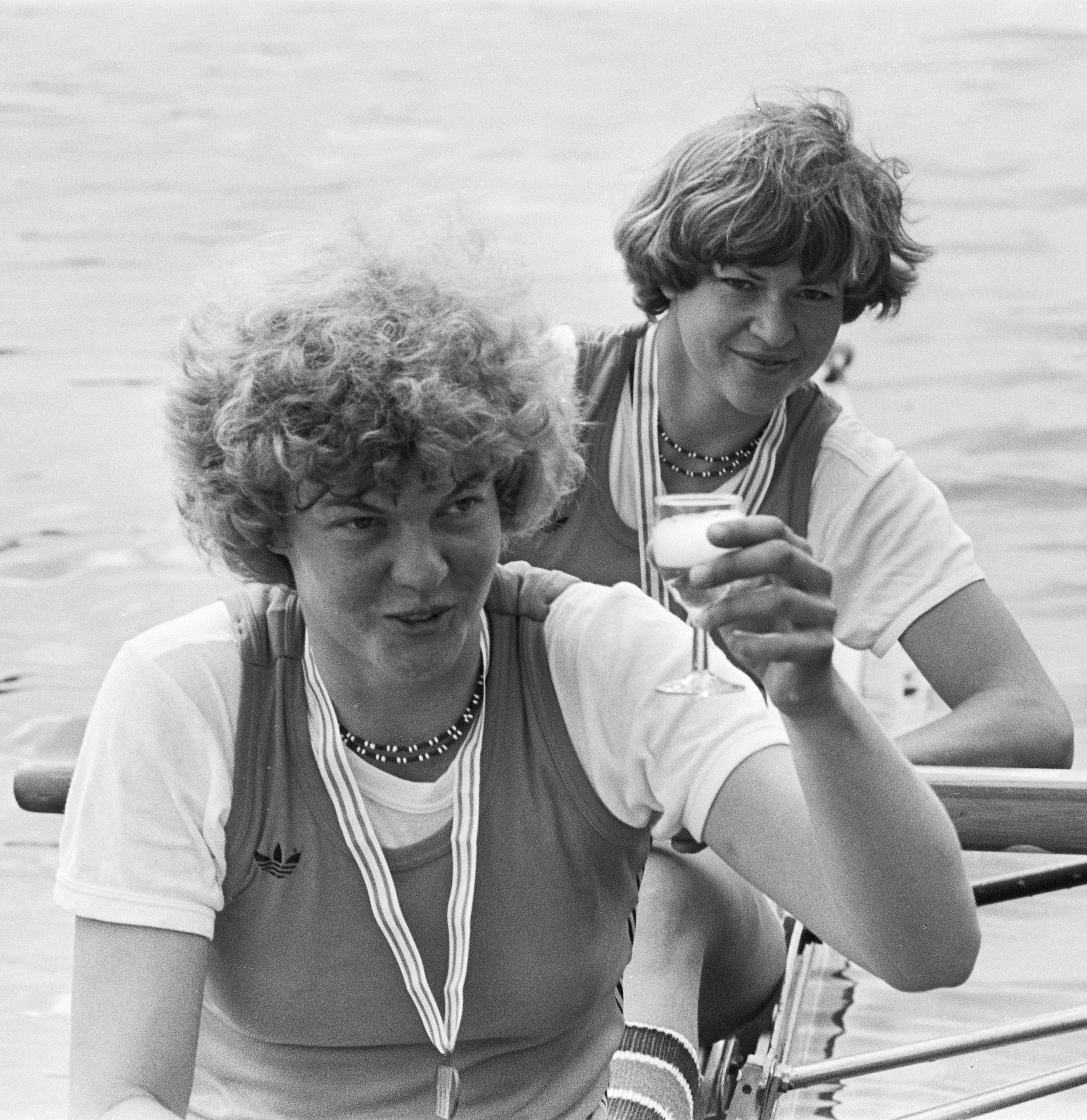 WK roeien Bosbaan; Joke Dierdorp (voor) en Karin Abma met glas champagne, zij wonnen zilver bij de twee zonder